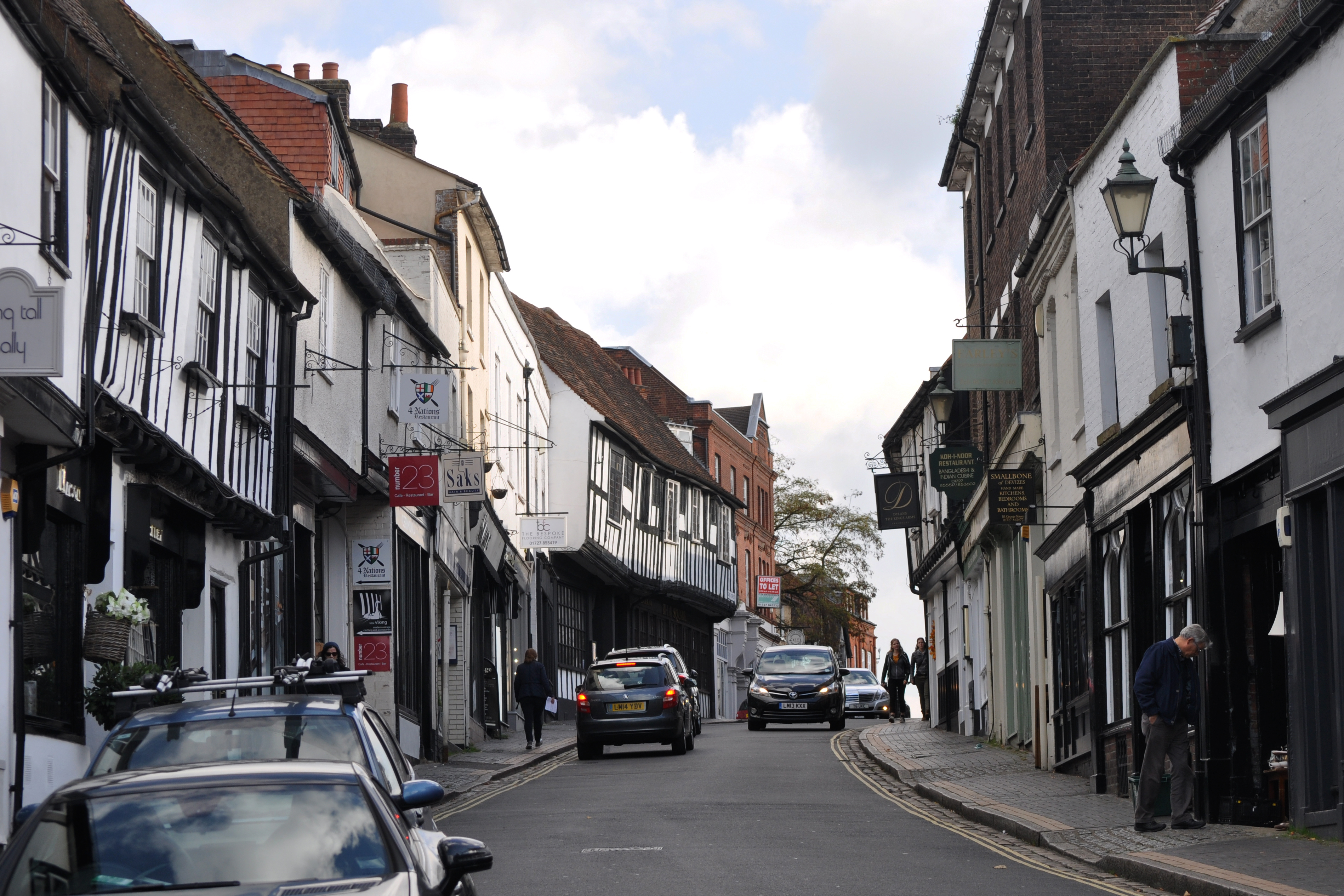 George Street, St Albans. The overhanging Tudor Tavern (left of centre) is one of many listed buildings. Wikidata has entry Q17555437 with data related to this item.